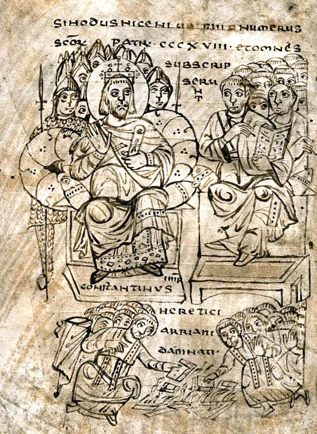 Emperor Constantine and the Council of Nicaea. The burning of Arian books is illustrated below. Drawing on vellum. From MS CLXV, Biblioteca Capitolare, Vercelli, a compendium of canon law produced in northern Italy ca. 825. Text: "Sinodus Niceni u[bi?] [f?]ui[t?] numerus / s[an]c[t]o[rum] patr[um] . CCCXVIII . et omnes / subscrip/seru/n/t." "Constantinus imp(erator)". "Heretici / Arriani / damnati" Translation: "[of?] the synod of Nicaea [where the] number / of holy fathers [was] 318 [.] and all / subscribed." "Constantine the emperor." "Arian heretics condemned."